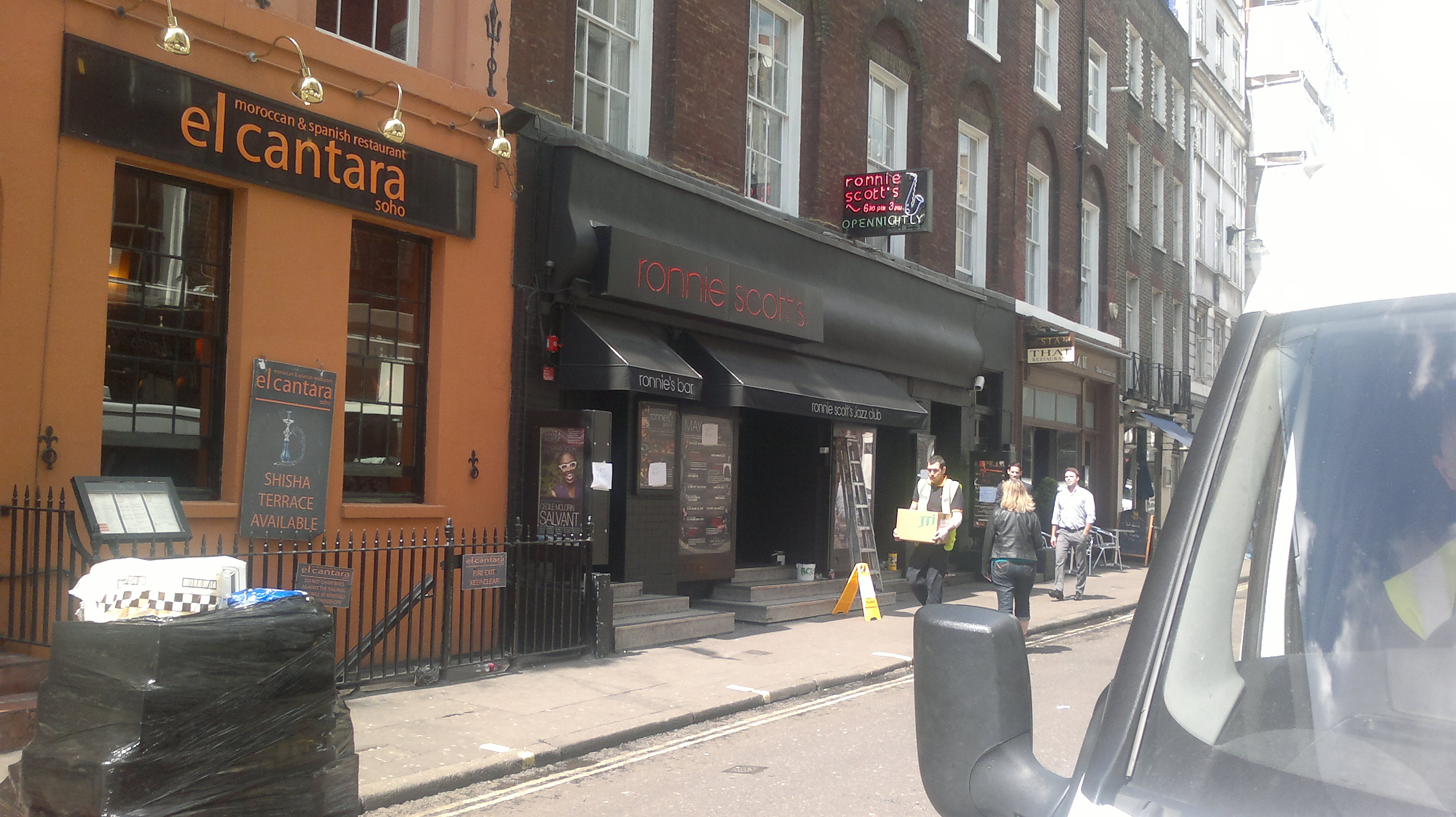 Ronnie Scott's jazz club in May 2014